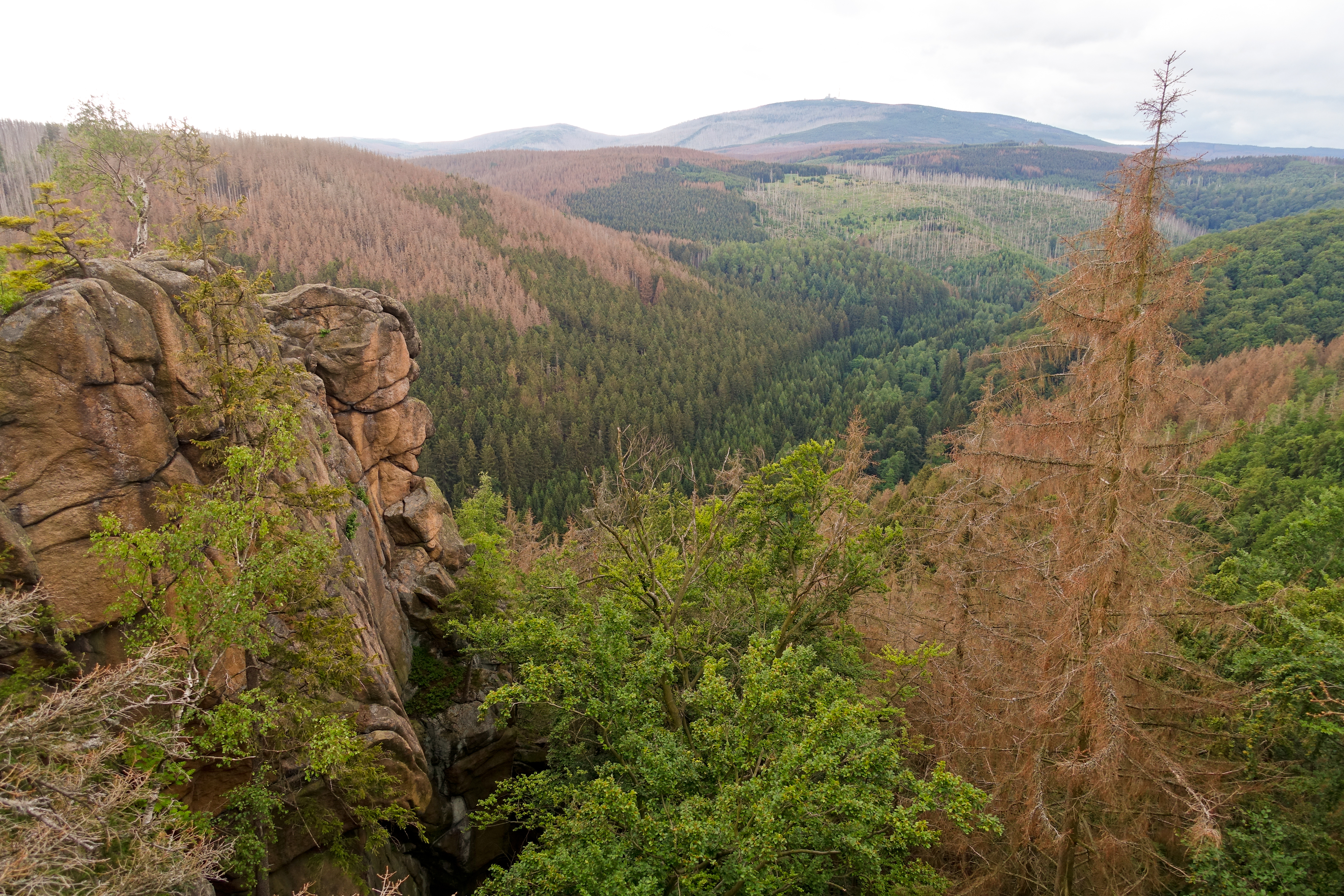 Damaged spruce forest in 2018/19 due to drought and bark beetles at Rabenklippe in the Harz / Germany